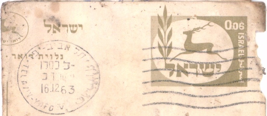 Imprinted stamp for 6 agorot on a postal card from 1963, showing the old logo (1949-2006) of Israel Postal Company designed by Gabriel and Maxim Shamir